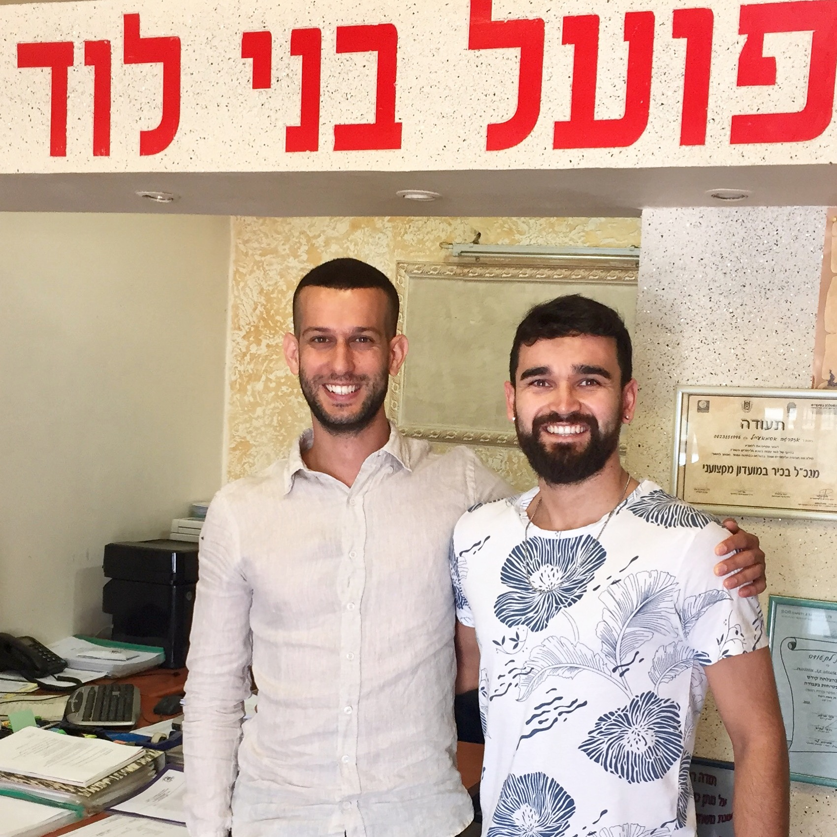 Striker, Diego Adrian Celis and agent, Boaz Goren upon signing a contract in Hapoel Bnei Lod FC